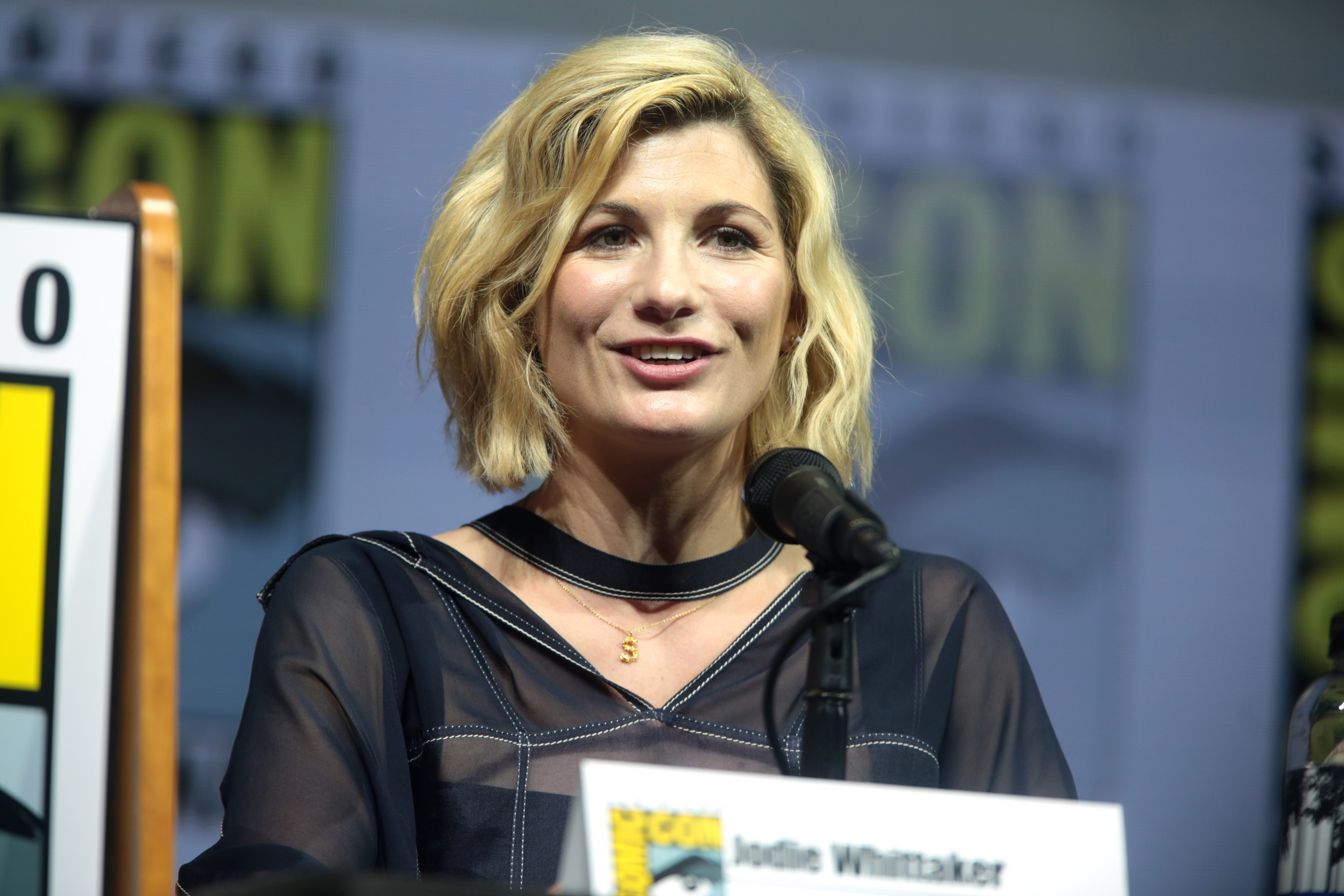 Jodie Whittaker speaking at the 2018 San Diego Comic Con International, for "Doctor Who", at the San Diego Convention Center in San Diego, California.